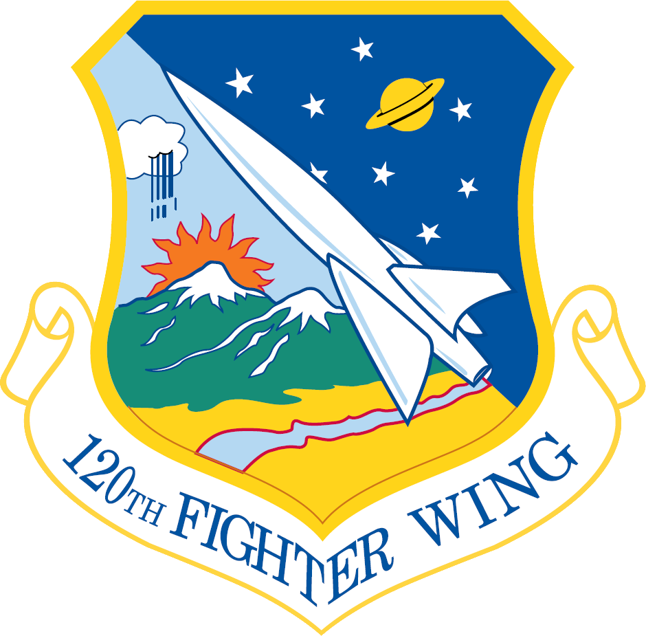 Emblem of the 120th Fighter Wing, an ANG wing of the United States Air Force